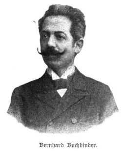 Portrait of Bernhard Buchbinder